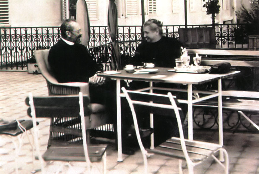 El primer ministro húngaro Esteban Tisza y su esposa en la terraza del Palacio Sándor, residencia del primer ministro, en 1904.